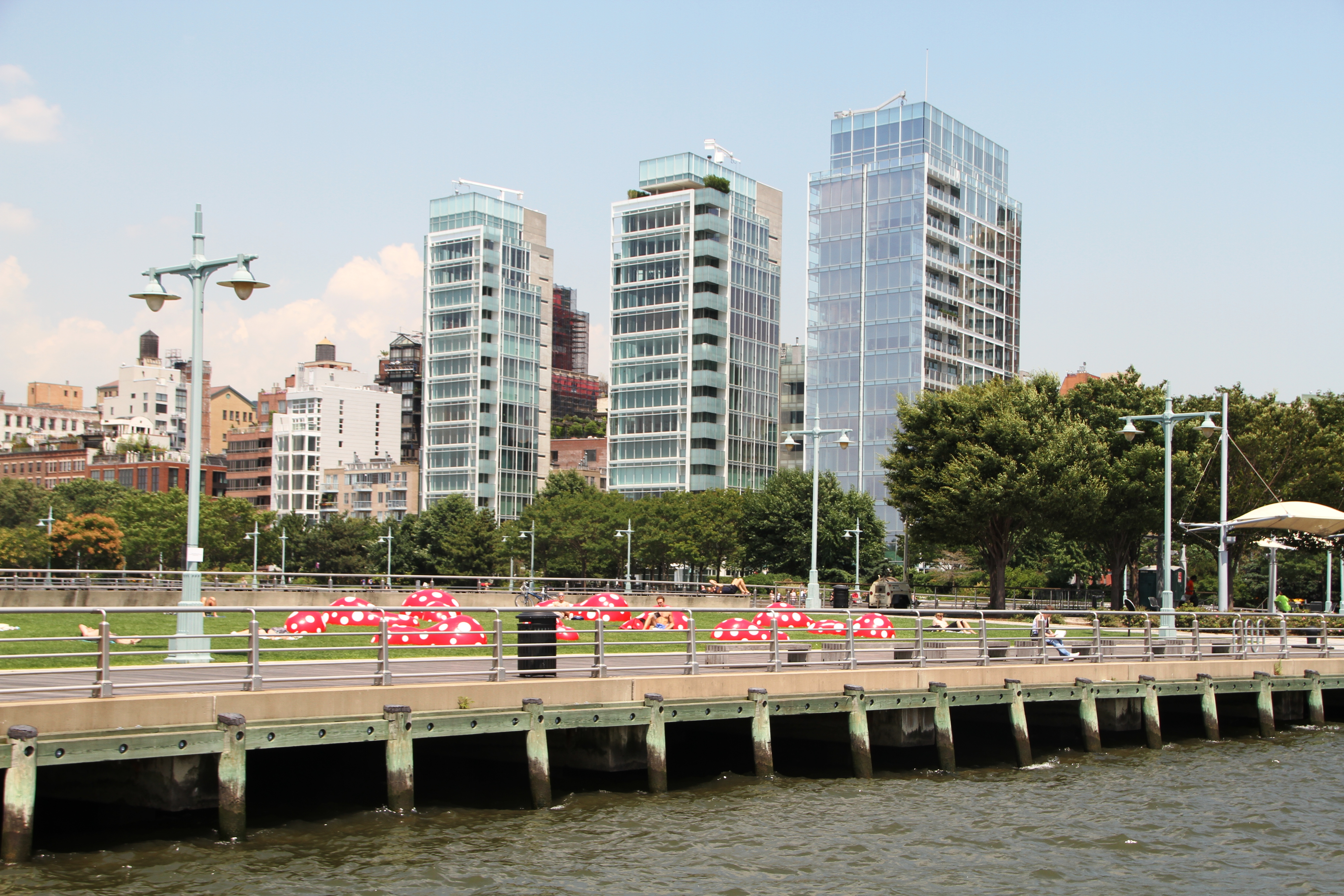 Image of lower west side Manhattan, taken from Hudson River. New York City.